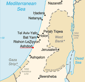 Ashdod on the map of Israel